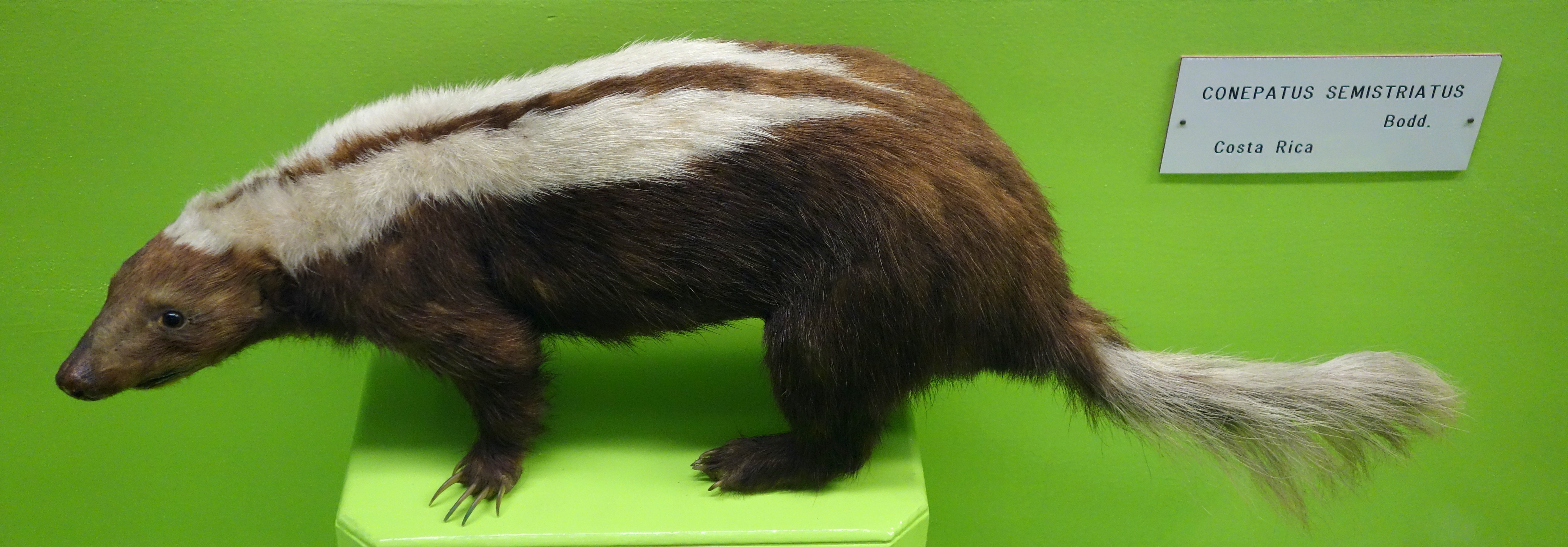 Exhibit in the Museo Civico di Storia Naturale di Genova, Via Brigata Liguria, 9, 16121, Genoa, Italy.